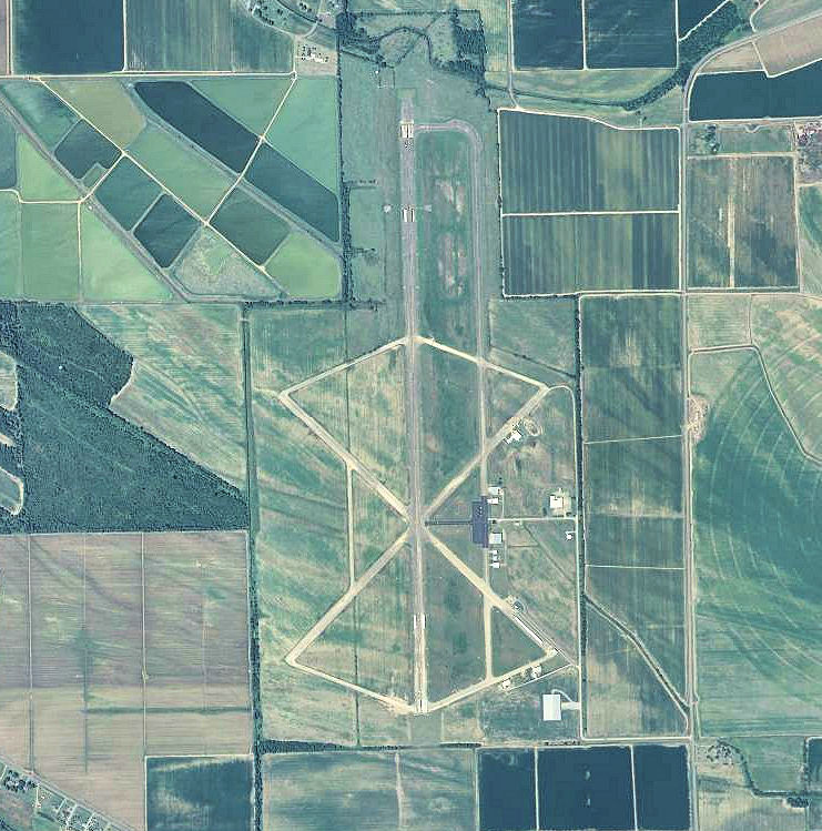 USGS digital orthophoto of Indianola Municipal Airport in Indianola, Mississippi.